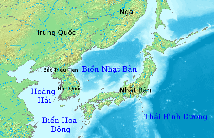 Map of the Sea of Japan in Vietnamese